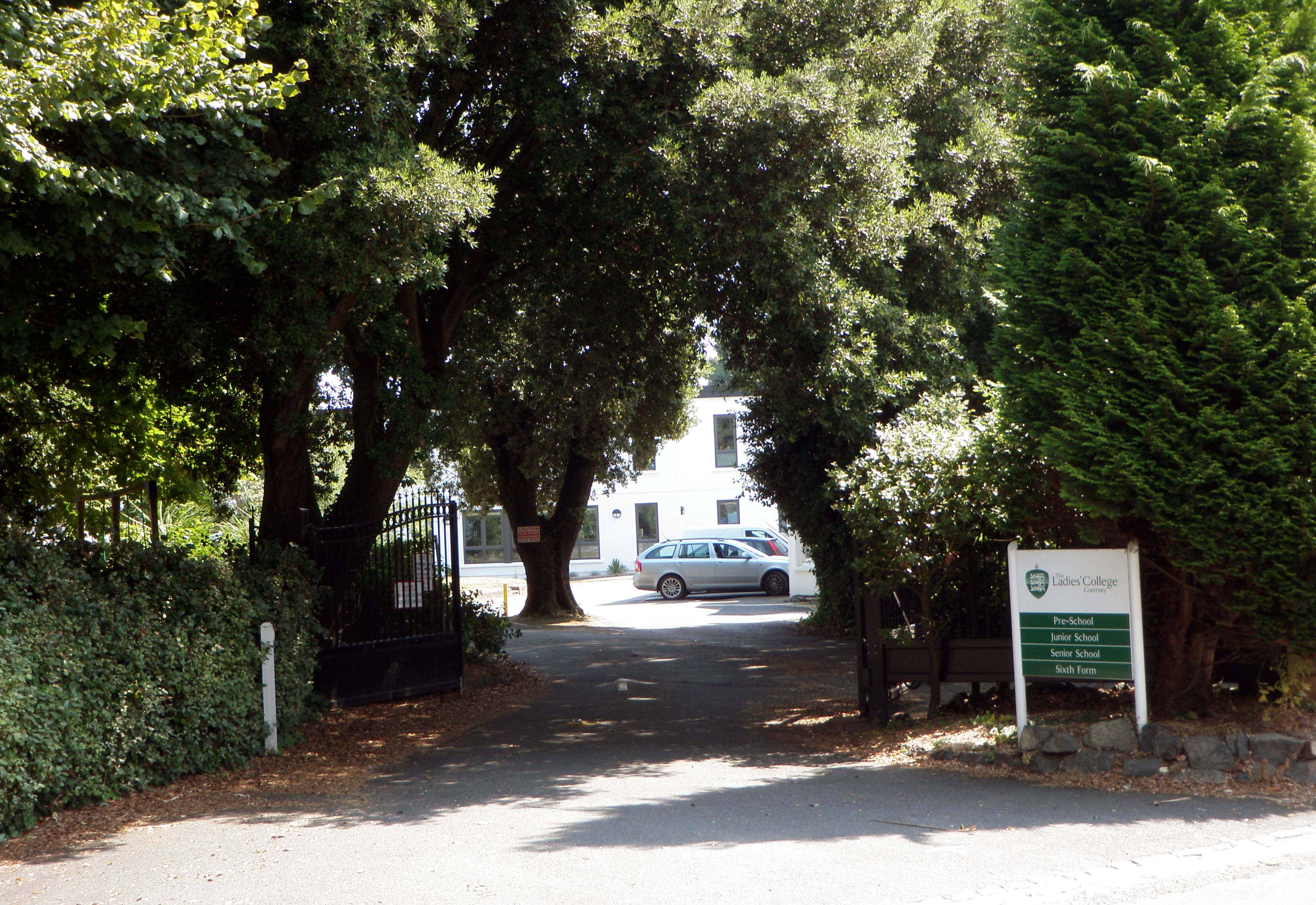 Entrance gate of the secondary school Ladies' College in Les Gravées, Saint Peter Port, Guernsey.